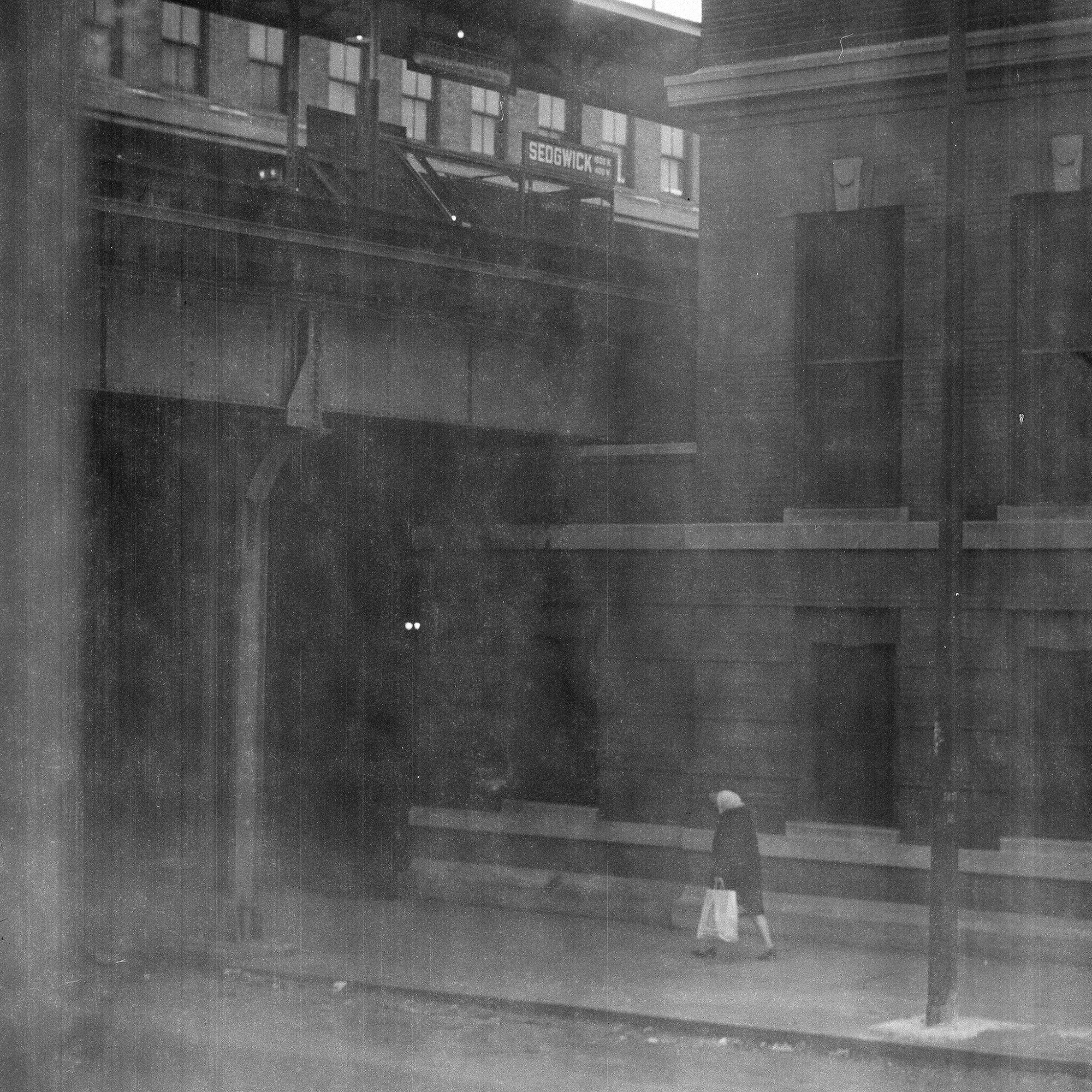 Photography by Victor Albert Grigas (1919-2017) Chicago 1255 img 010 Photography by Victor Albert Grigas (1919-2017)